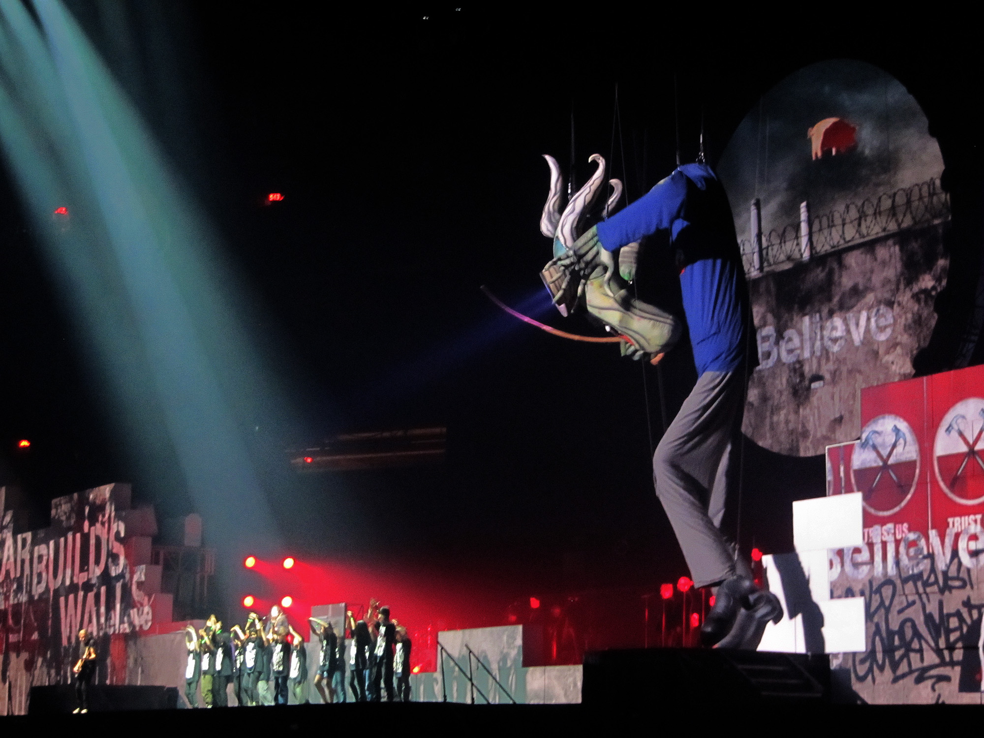 Roger Waters The Wall Live tour (Toronto, Ontario, Canada)